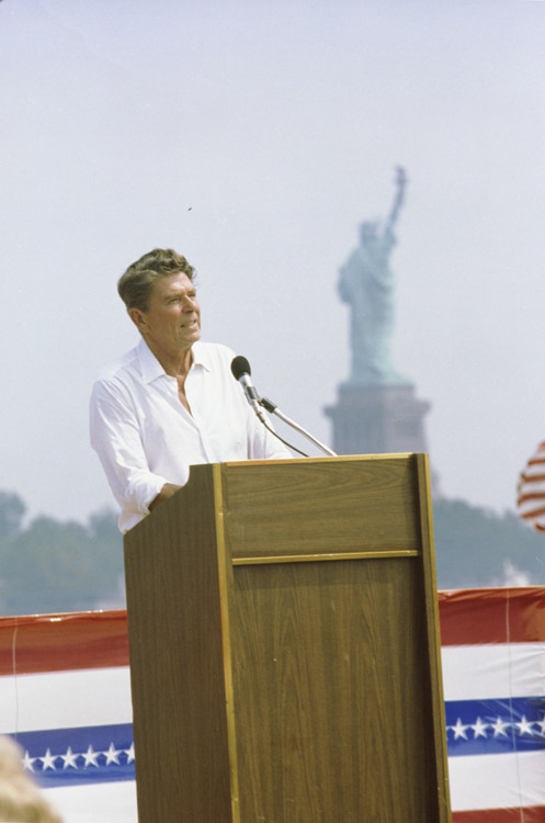 9/01/1980 Ronald Reagan giving a speech at Liberty State Park in Jersey City New Jersey